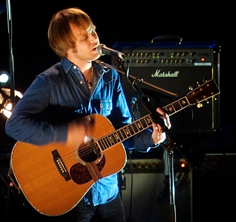 James Skelly on stage with The Coral 2010